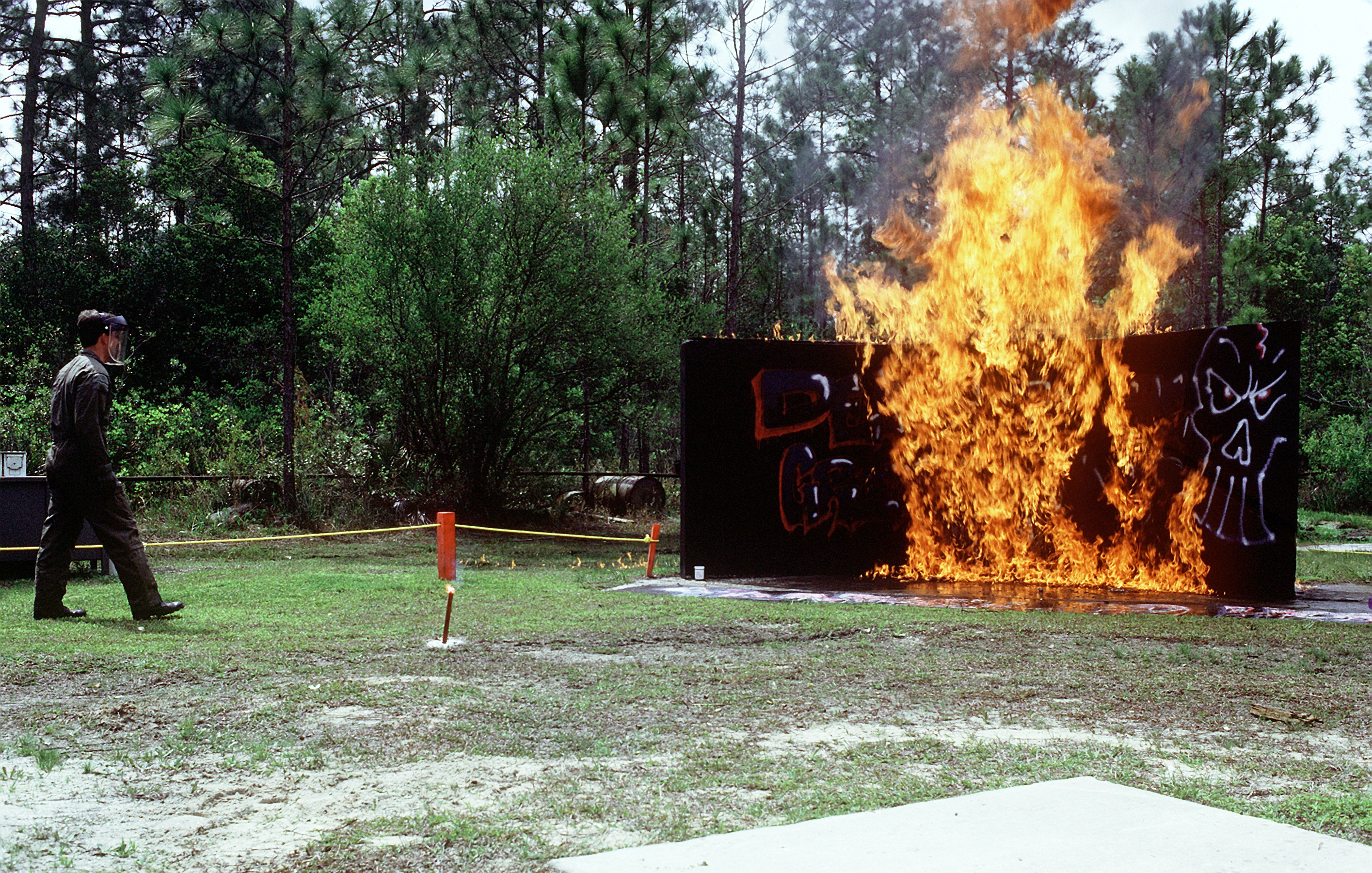 Flames from a home made Molotov cocktail leap into the air during a demonstration at the Dynamics of International Terrorism course taught at the Air Force Special Operations School. The course is a week long symposium that teaches the principles and psychology of terrorism and basic anti-terrorism tactics to military personnel and government civilians.